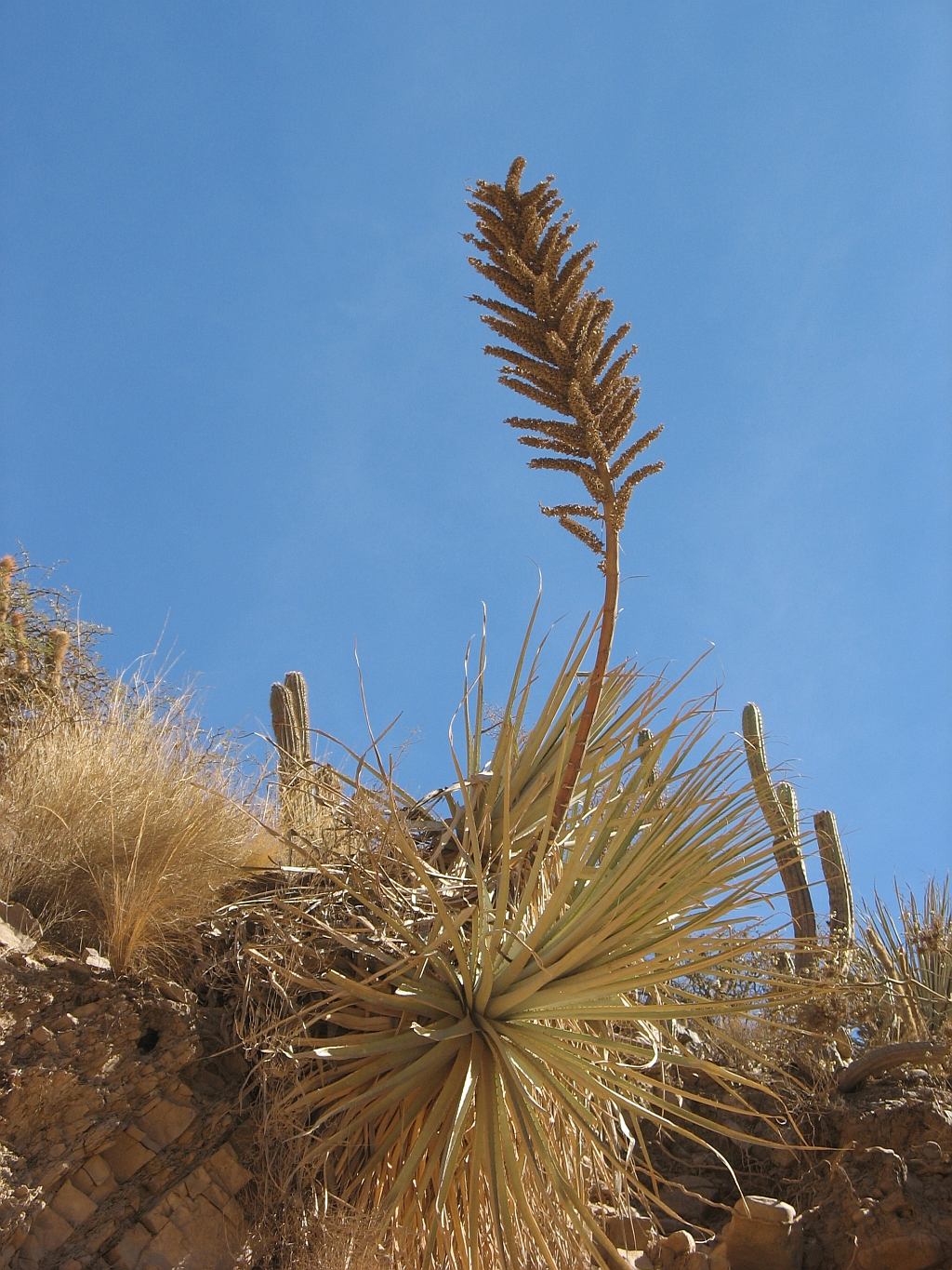 Puya fiebrigii in habitat in Bolivia, exact location unknown.